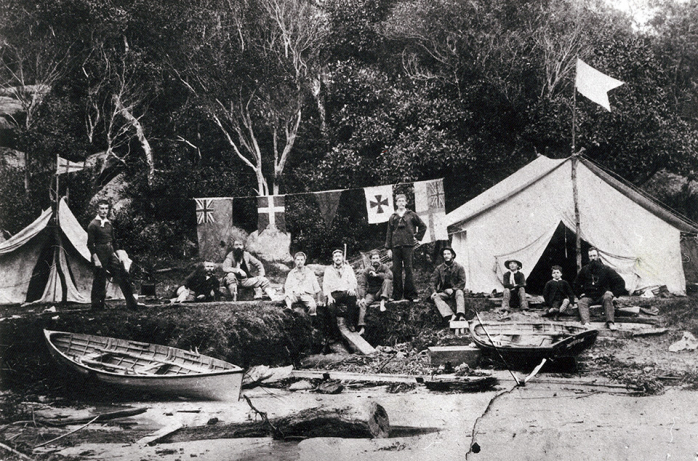 COLLECTION: Mosman (Sydney) Local Studies Collection FILE: CC0\CC0041 TITLE: Camp at Balmoral, c.1890. NOTE: CC No. A22 SERIES: Carroll Collection This camp, probably Lotus Camp at Edwards Beach, was one of several camps established in Mosman in the late 1800s as a semi-permanent retreat from urban living. The best known were the Artists'Camp, established by the cartoonist Livingston Hopkins ("Hop" of the Bulletin) at the northern end of Edwards Beach and Curlew Camp at Sirius Cove, home to the artists Arthur Streeton and Tom Roberts.